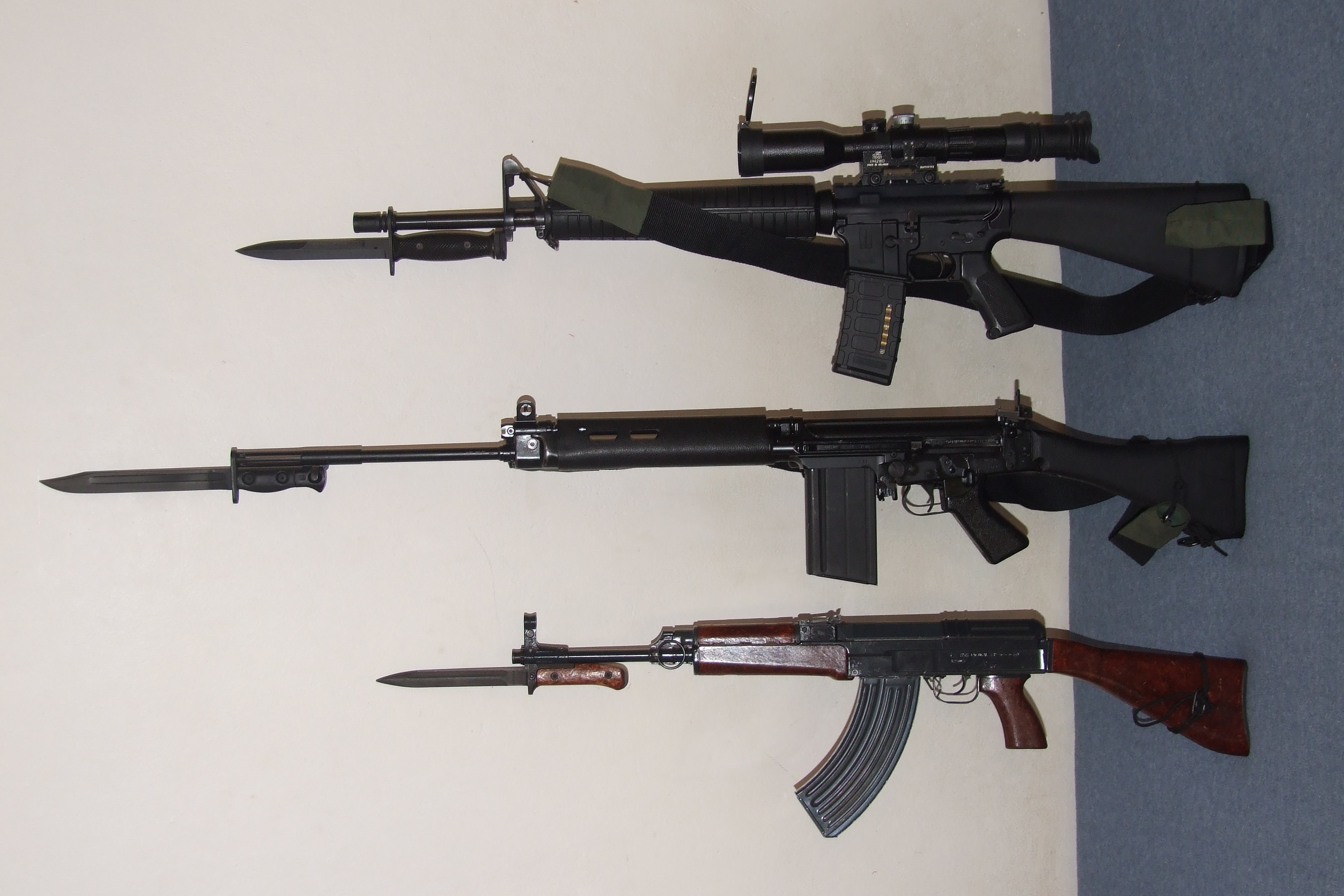 M16A4 with POSP scope, SLR L1A1, Sa vz. 58 P